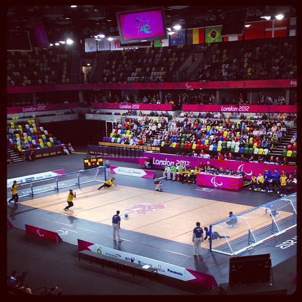 2012 Summer Paralympics